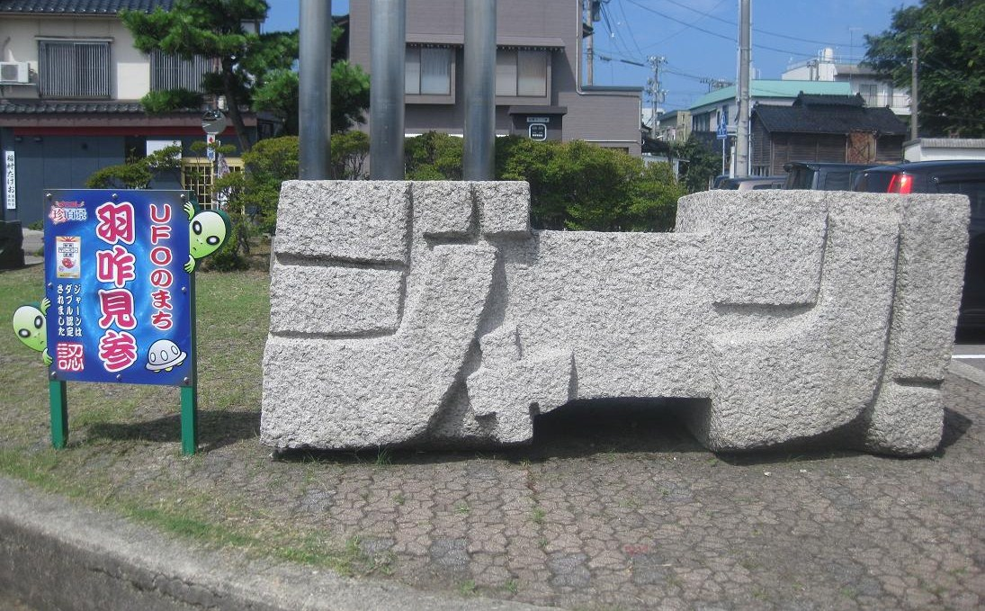 An onomatopoeia art object in Hakui, Ishikawa